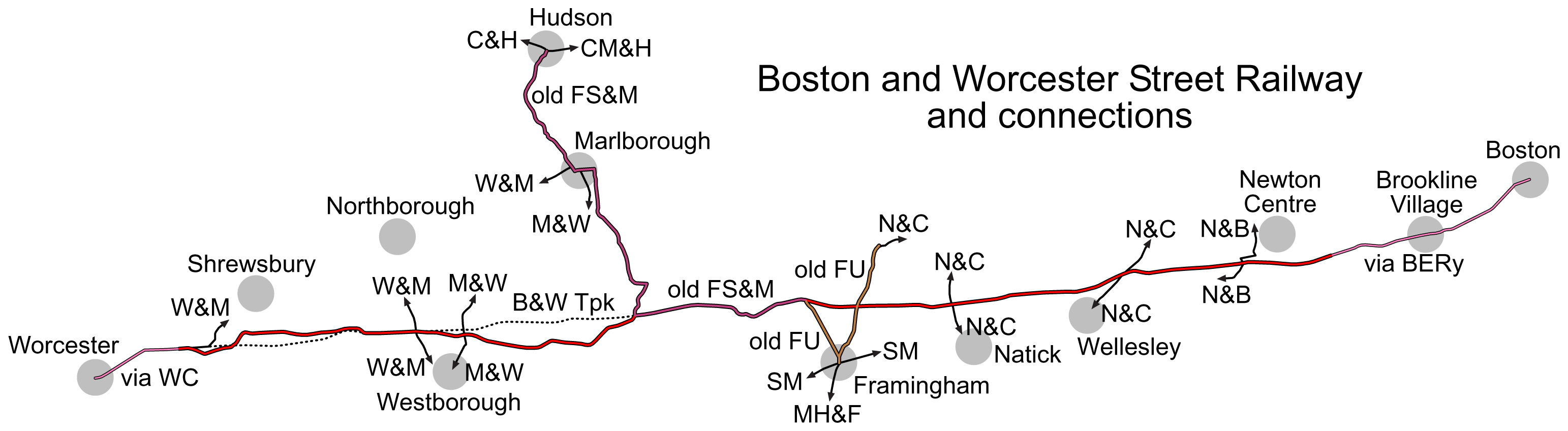 Map of the Boston and Worcester Street Railway (red) and the Boston-Worcester Turnpike - modern Route 9 (grey)